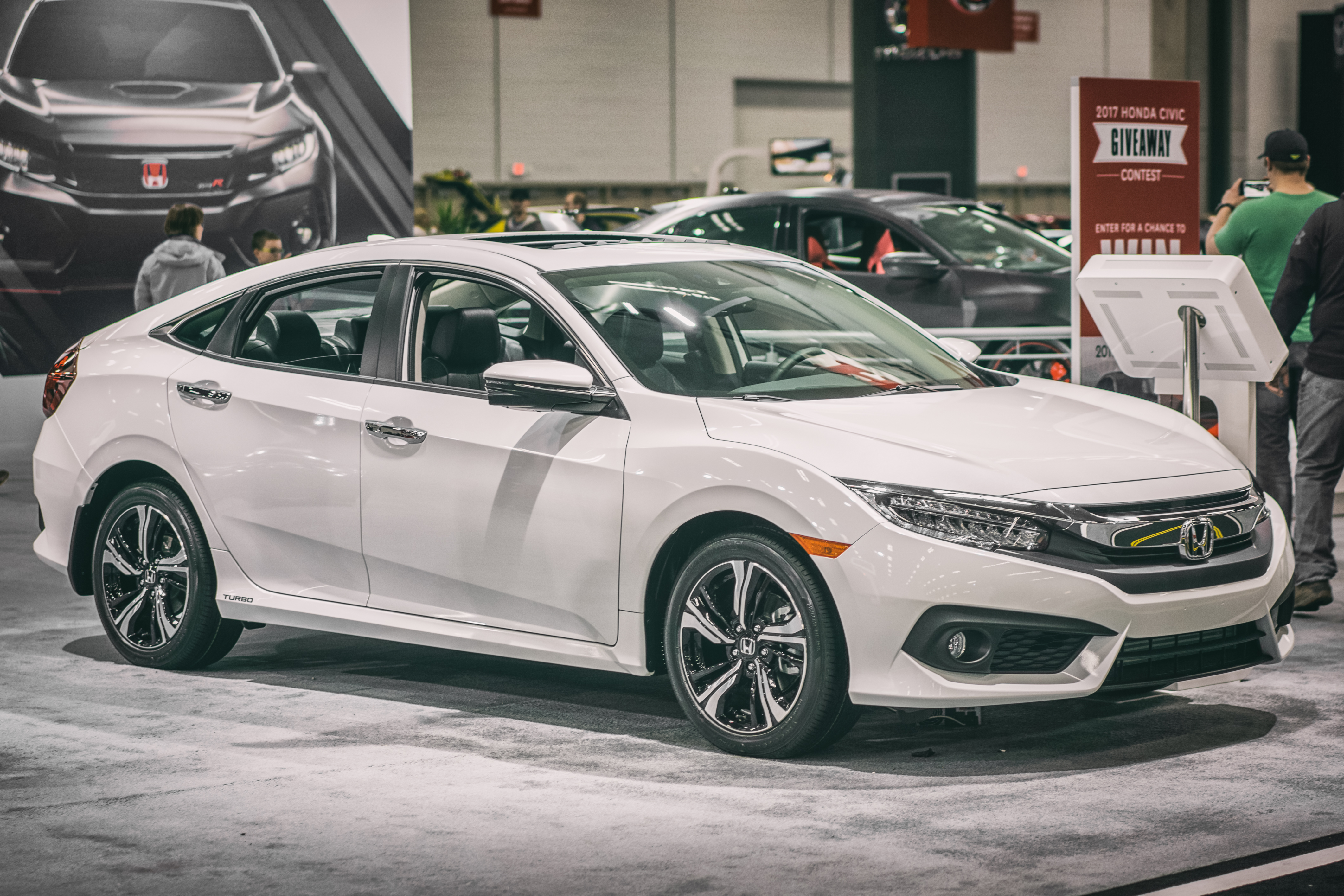 Edmonton Motor Show 2017